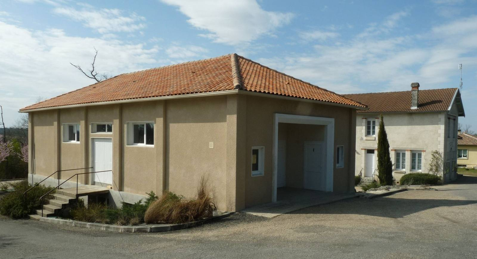 community hall